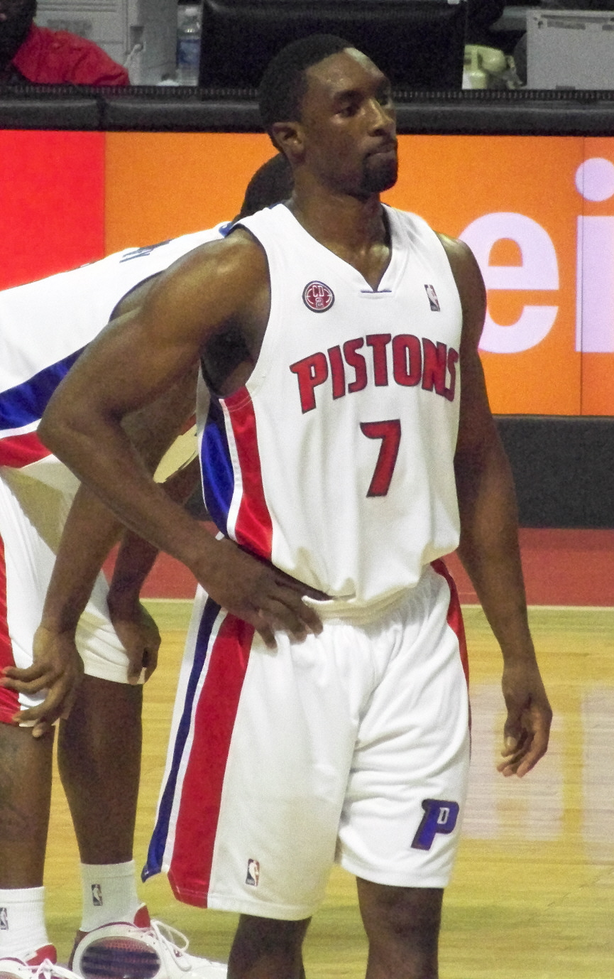 Ben Gordon of the Detroit Pistons during a game against the Milwaukee Bucks